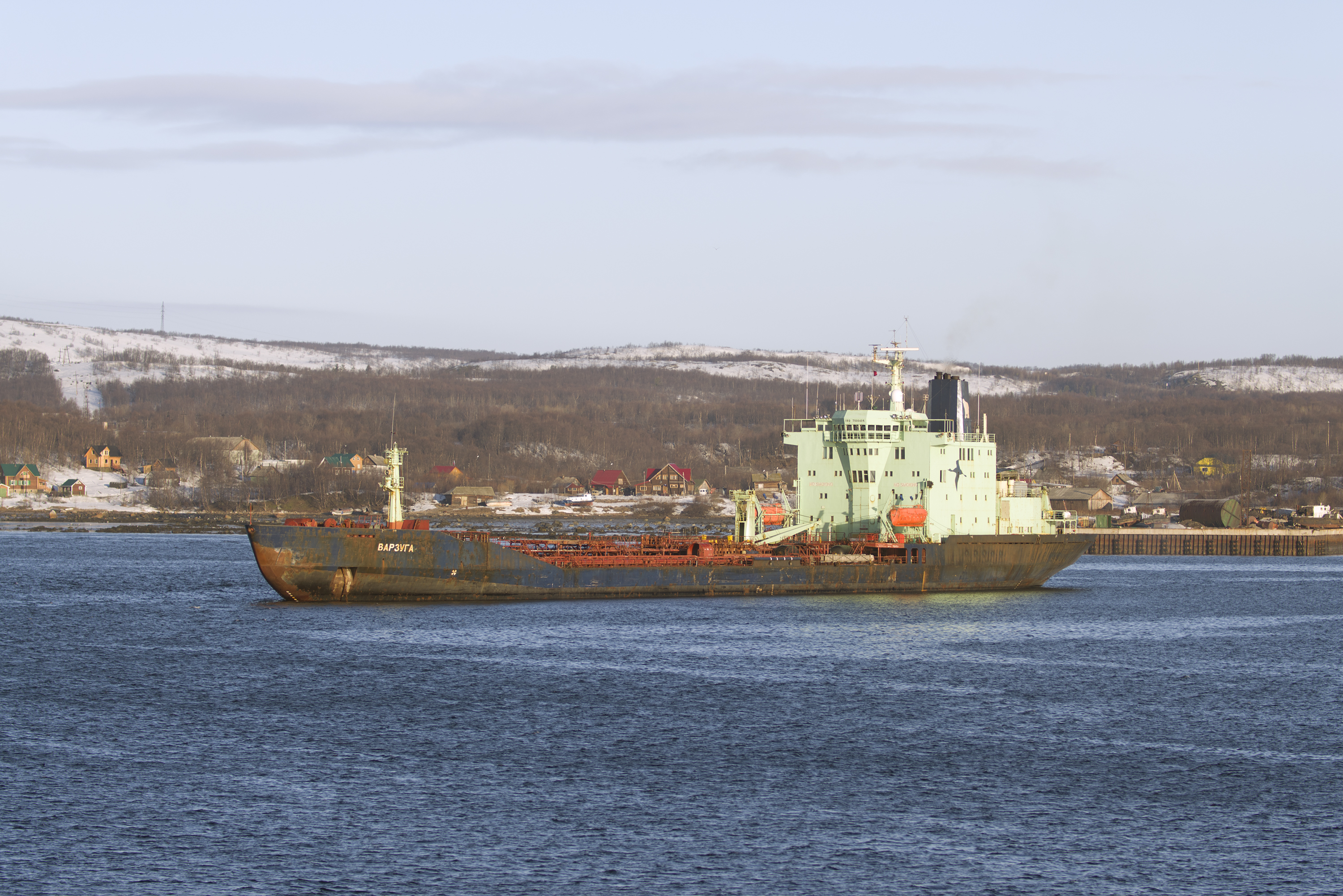 The Russian product tanker Varzuga (ex-Uikku) anchored off Murmansk. This ship was the first cargo ship ever to be fitted with an Azipod propulsion unit.